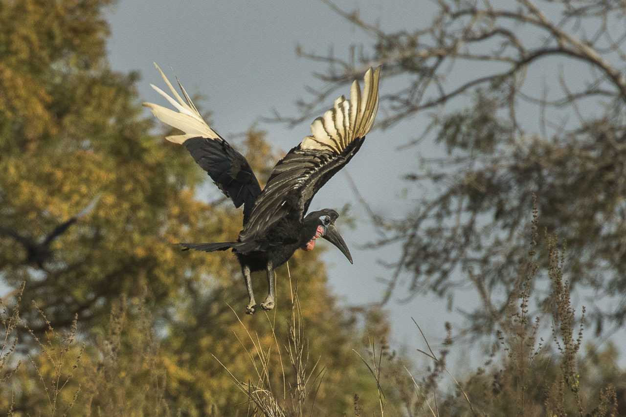 Abyssinian Ground-Hornbill - Gambia 17_CD5A1438